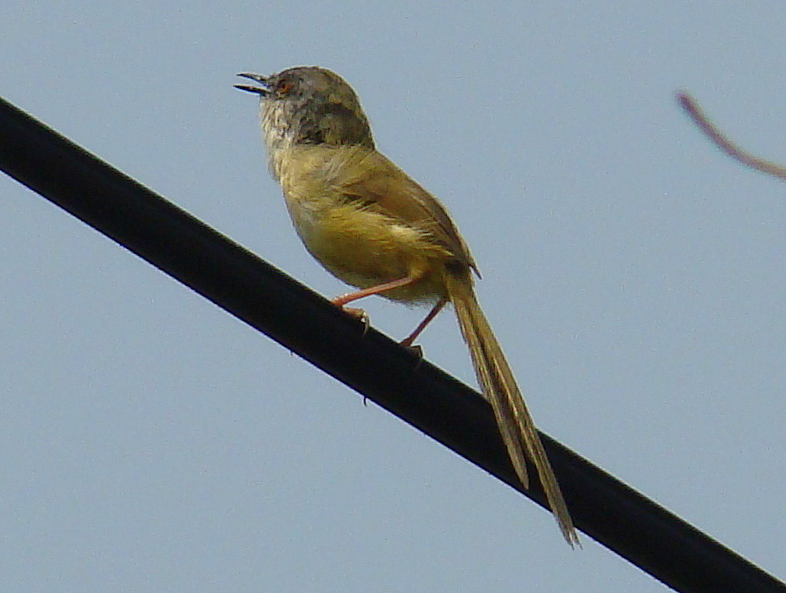 Yellow Bellied Prinia